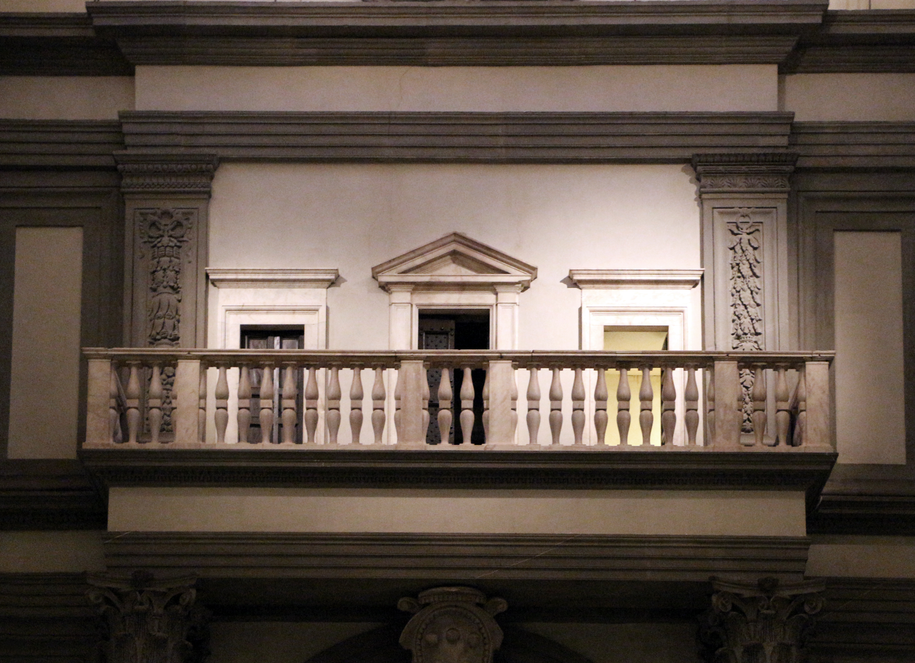 Interior of the Basilica of San Lorenzo (Florence)